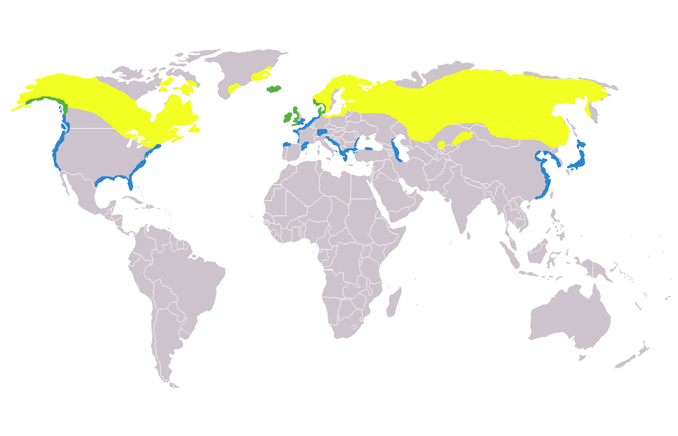 Mergus serrator distribution - yellow:summer, blue:winter, green:year-round